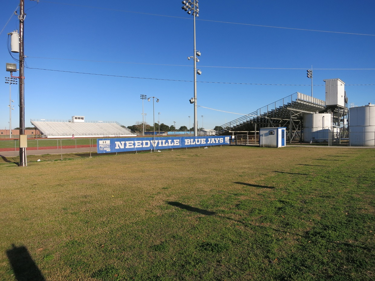 Photo shows Blue Jay Stadium at 16319 Highway 36, Needville, TX 77461. It belongs to Needville Independent School District. View is toward the east.